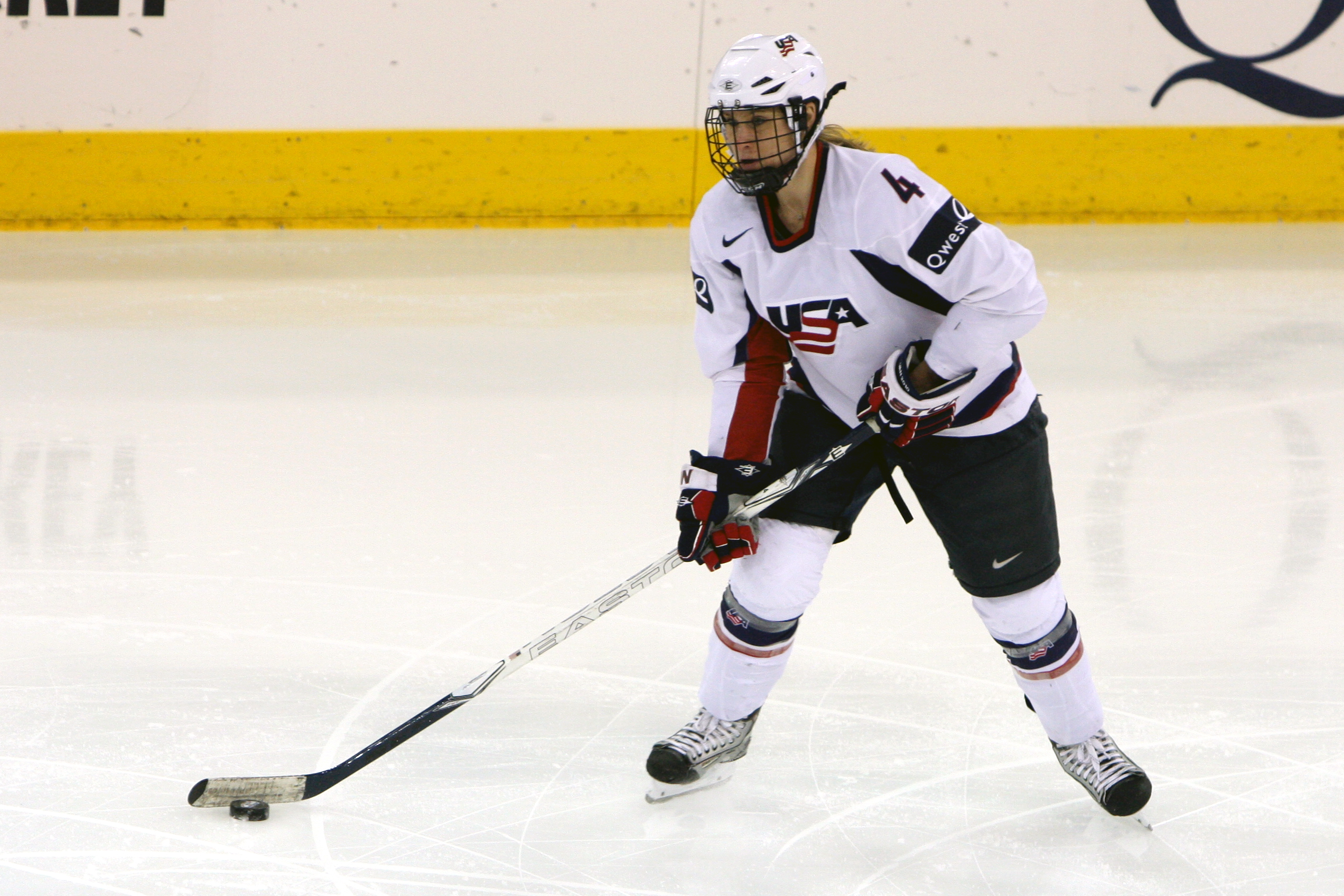 United States defenseman Angela Ruggiero in a game against the ECAC All-Stars on January 3, 2010.